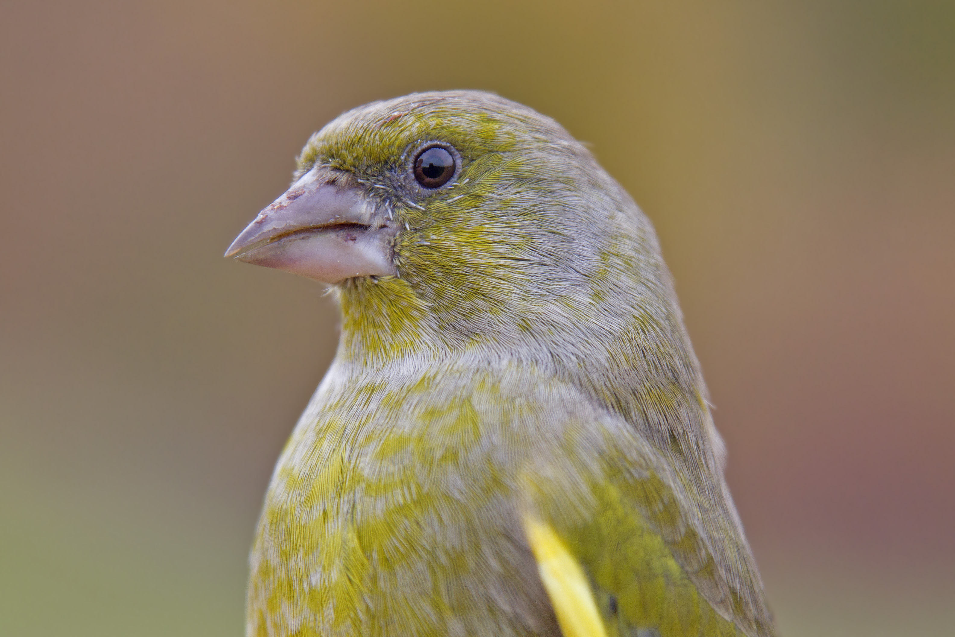 European Greenfinch